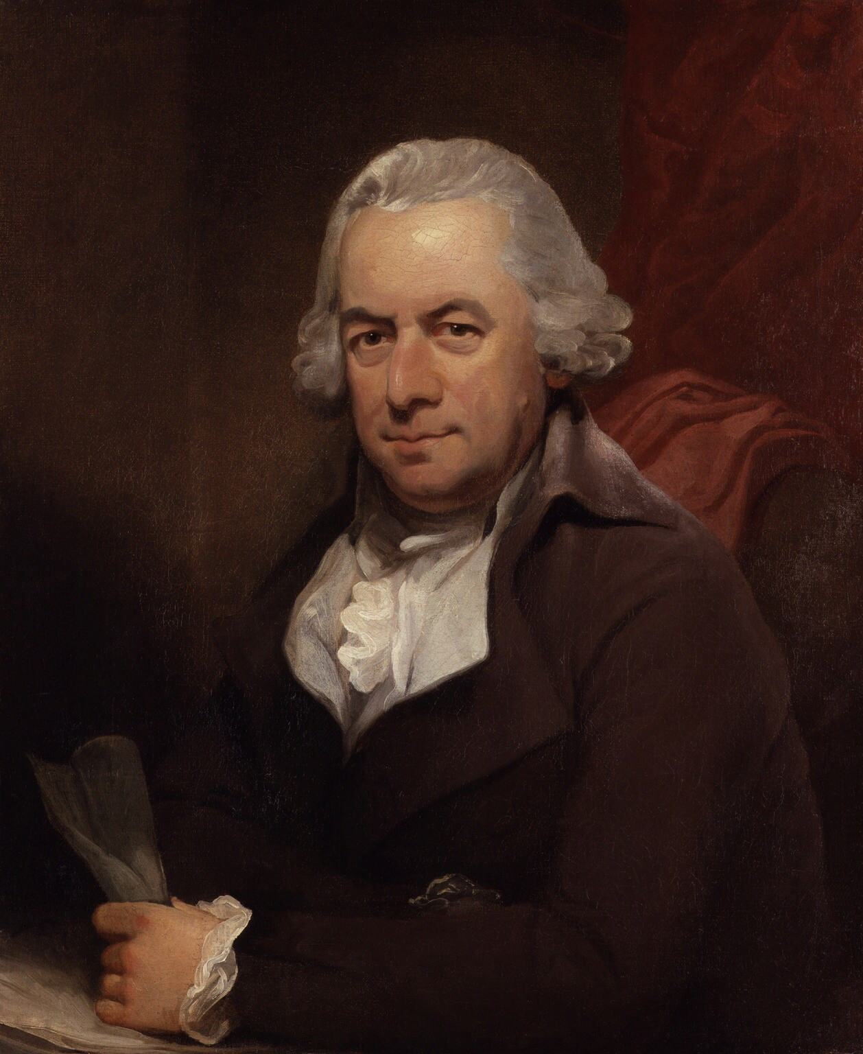 Purchased by the NPG in 1993.